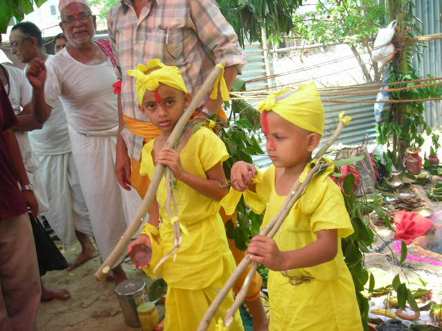 Two young batuks during Upanayan Sanskar.